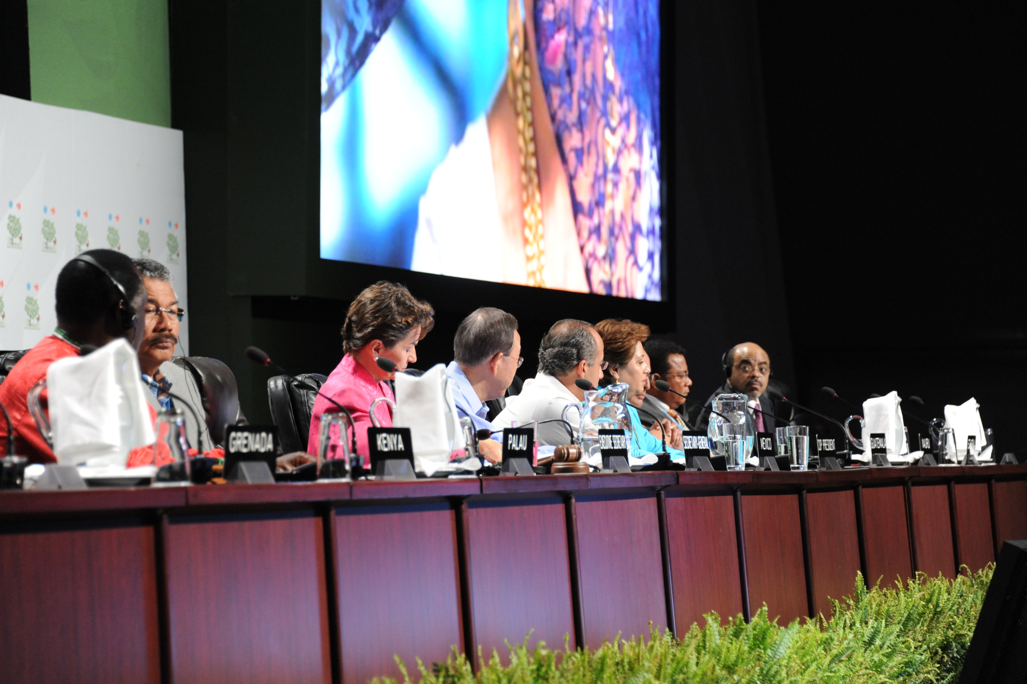 UN Climate Talks 2010. Cancun, Mexico. by United Nations